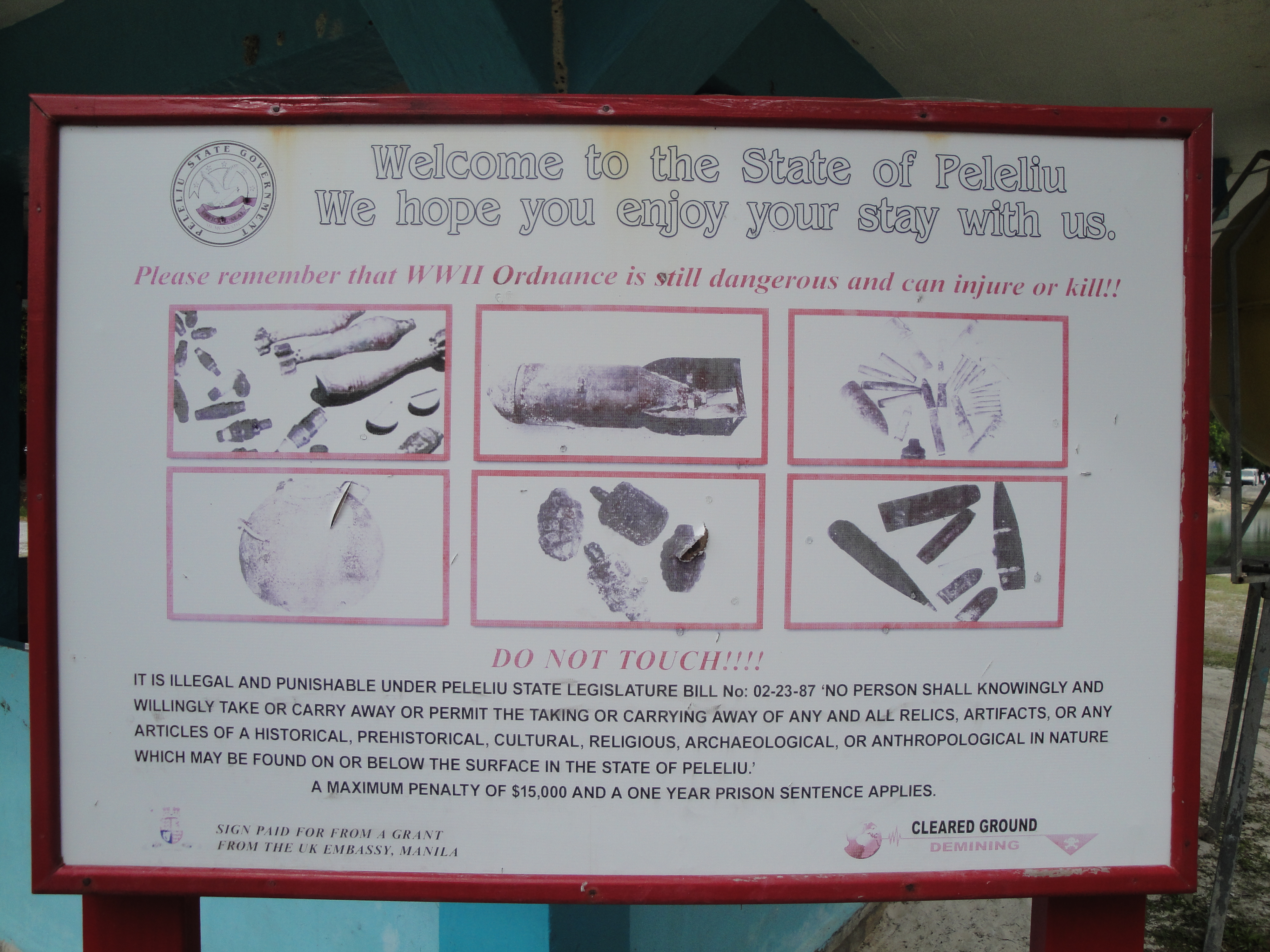 Wecome to the State of Peleliu